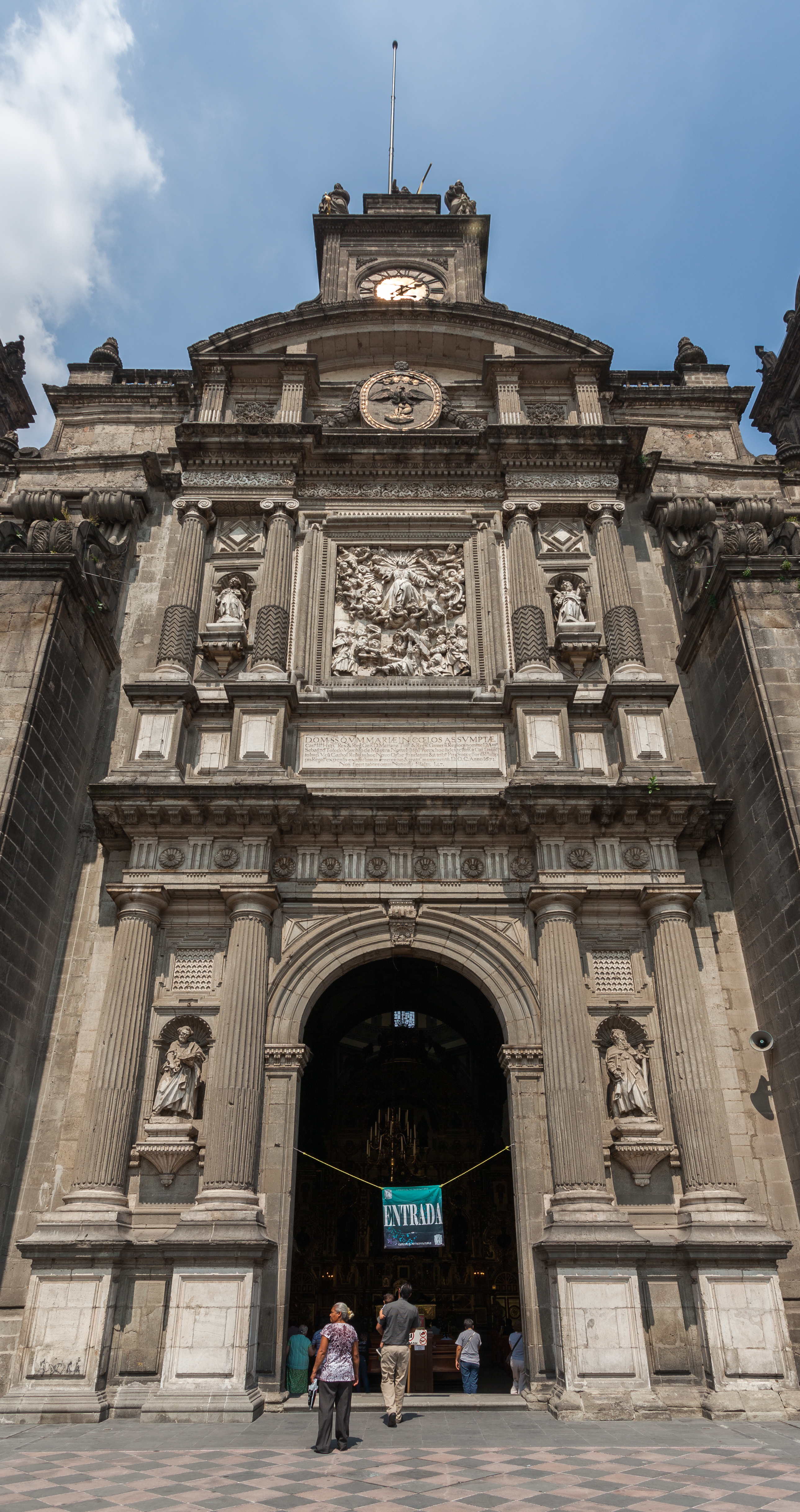 Metropolitan Cathedral, Mexico City, México